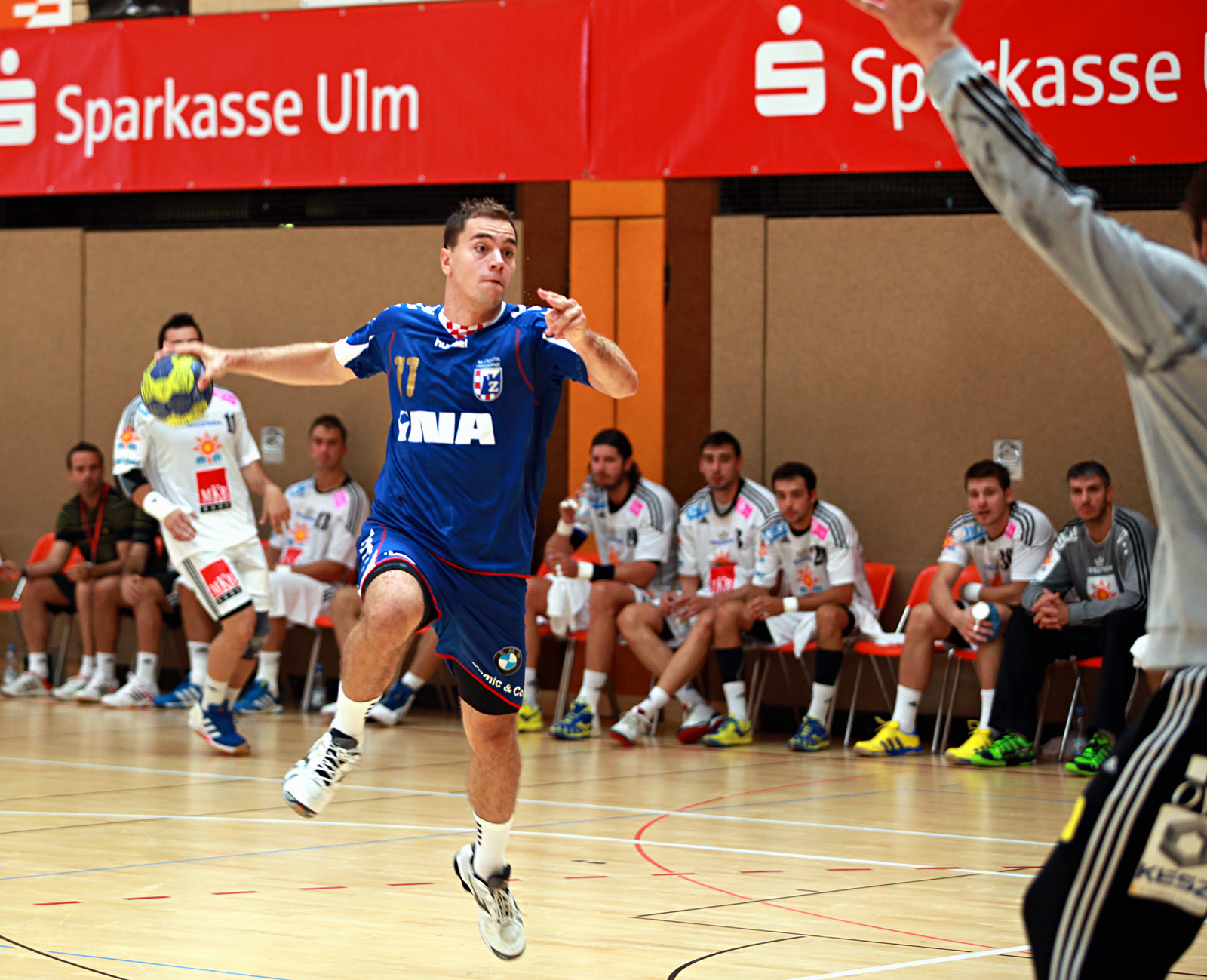 Lovro Šprem, on August 17th, 2012 in Ehingen (Germany), during the Sparkassen Cup (formerly known as Schlecker Cup).